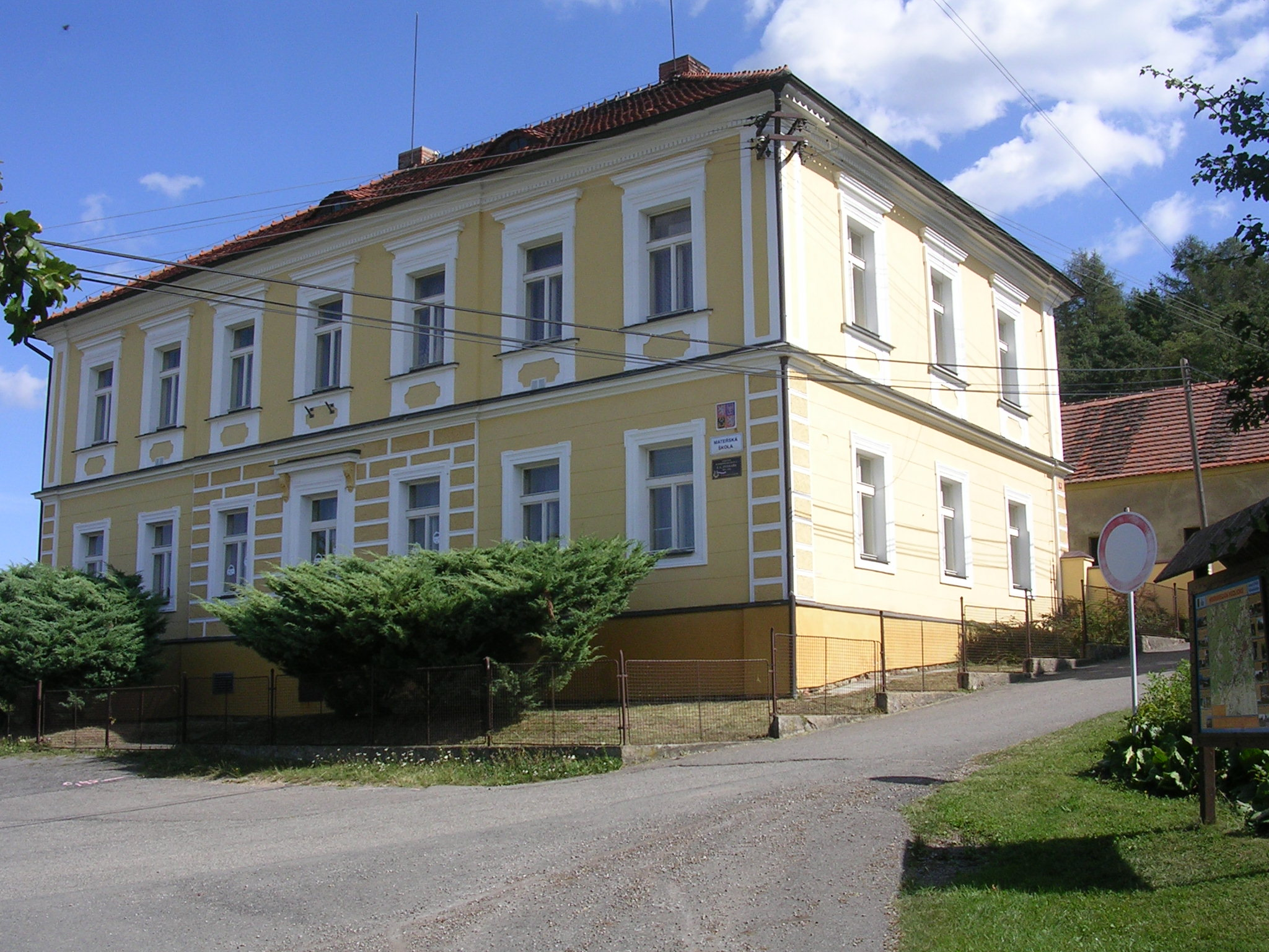 Kublov, Beroun District, Central Bohemian Region, the Czech Republic. A kindergarten and school of music with memorial hall of componist Josef Leopold Zvonař. - Google Maps - Google Earth